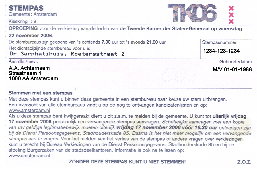 "Stempas" (Voting pass) for the Dutch General election 2006, municipality of Amsterdam